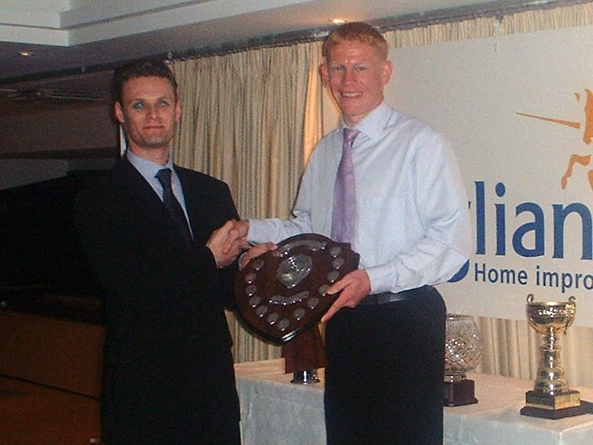 Gary Holt being presented with the Capital Canaries Player of the Season trophy at Carrow Road by Martin L Simmons, Chairman, in April 2002 - Mls11 00:45, 19 June 2007 (UTC)